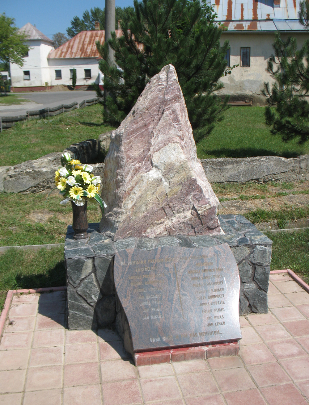 Monument in Budkovce